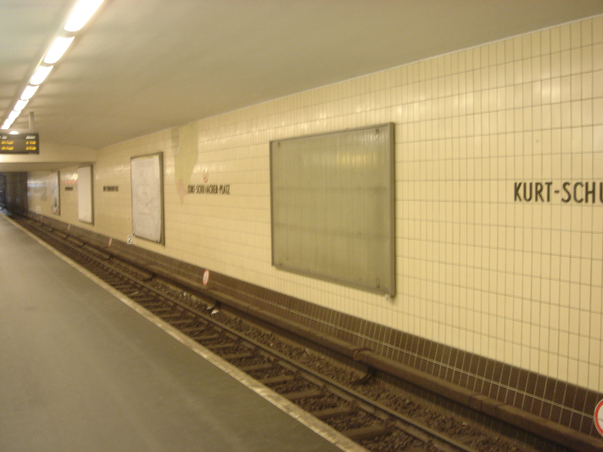 Kurt-Schumacher-Platz U-Bahn station (line U6), Berlin, Germany